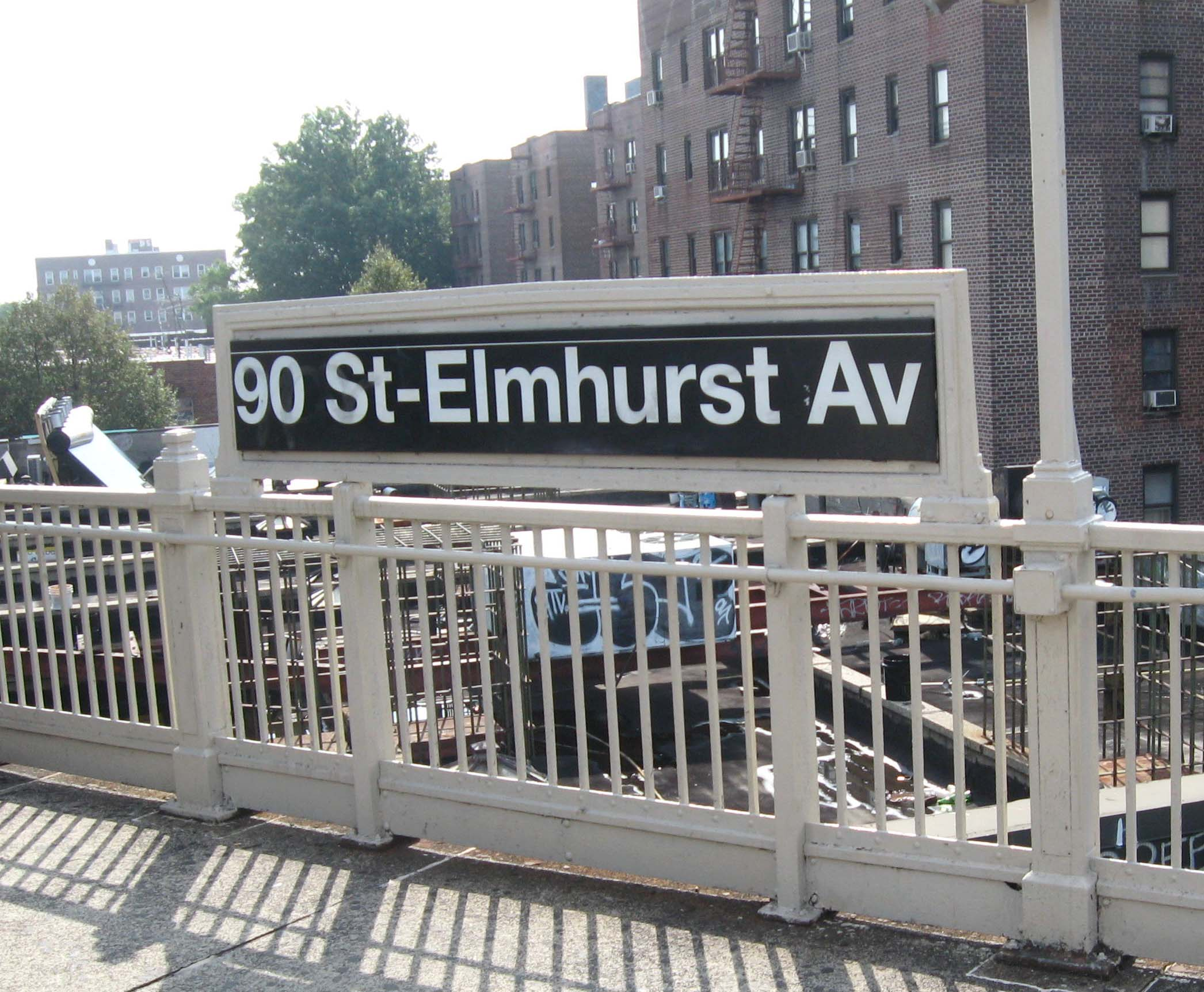 Looking southeast on eastbound platform of en:90th Street–Elmhurst Avenue (IRT Flushing Line) on a mostly cloudy late morning